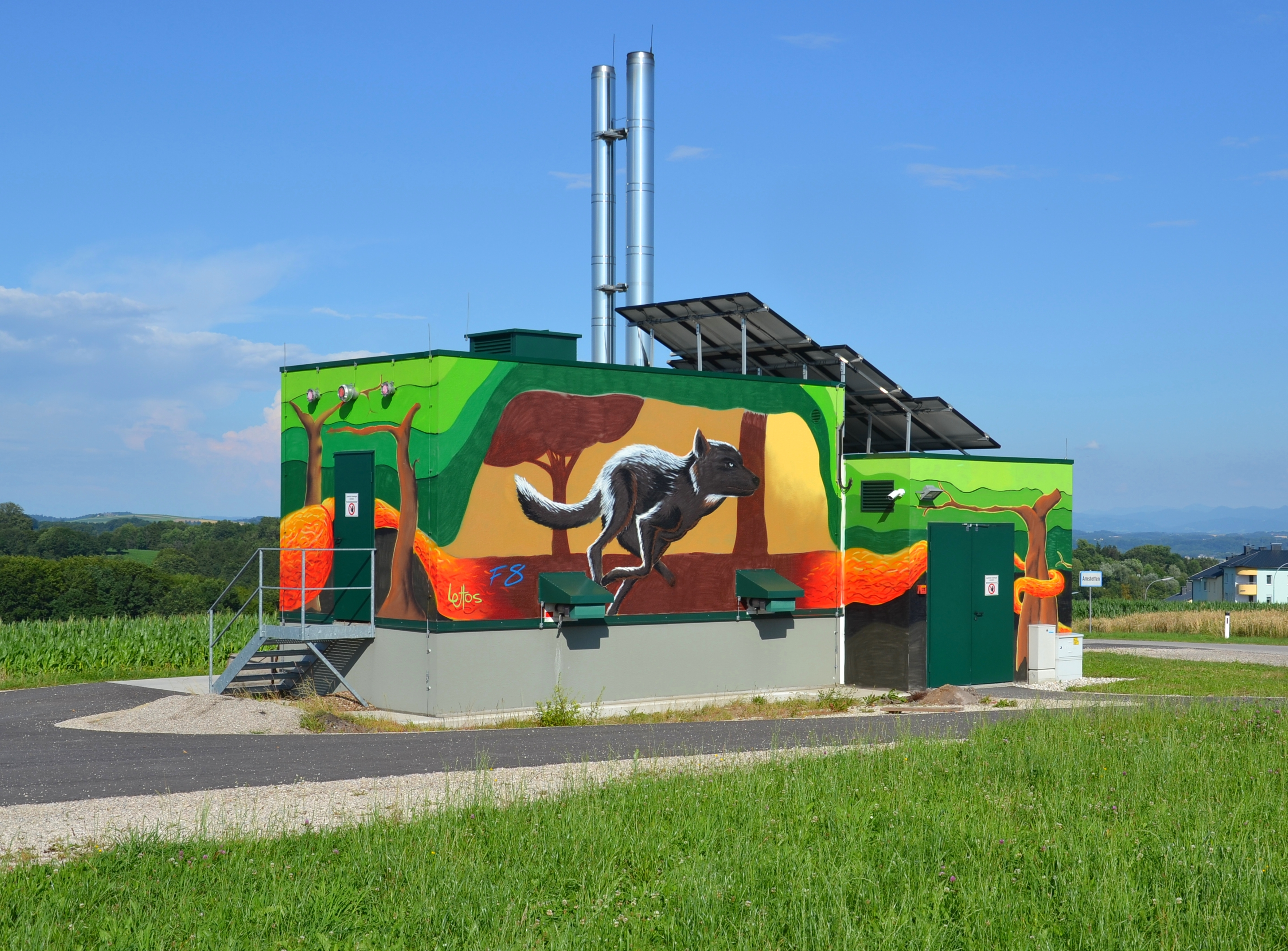 Biomass Heating Plant with very good Graffiti